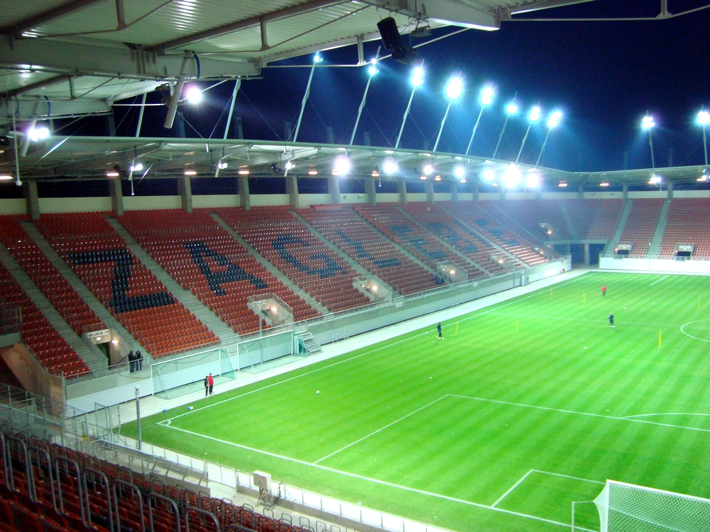 Dialog Arena. Zagłębie Lubin stadium in Lubin, Poland.